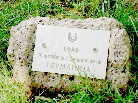 Struga Poetry Evenings ( Струшки вечери на поезијата ), Struga, Republic of Macedonia